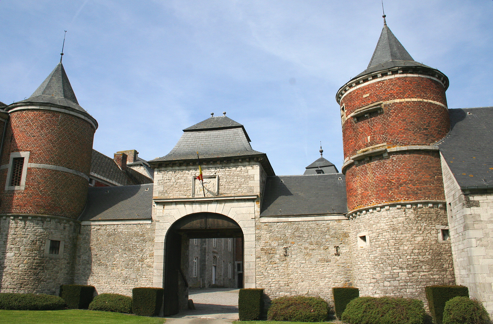 Warnant-Dreye (Belgium), the porch of the d'Oultremont castle (XVII/XVIIIth centuries).